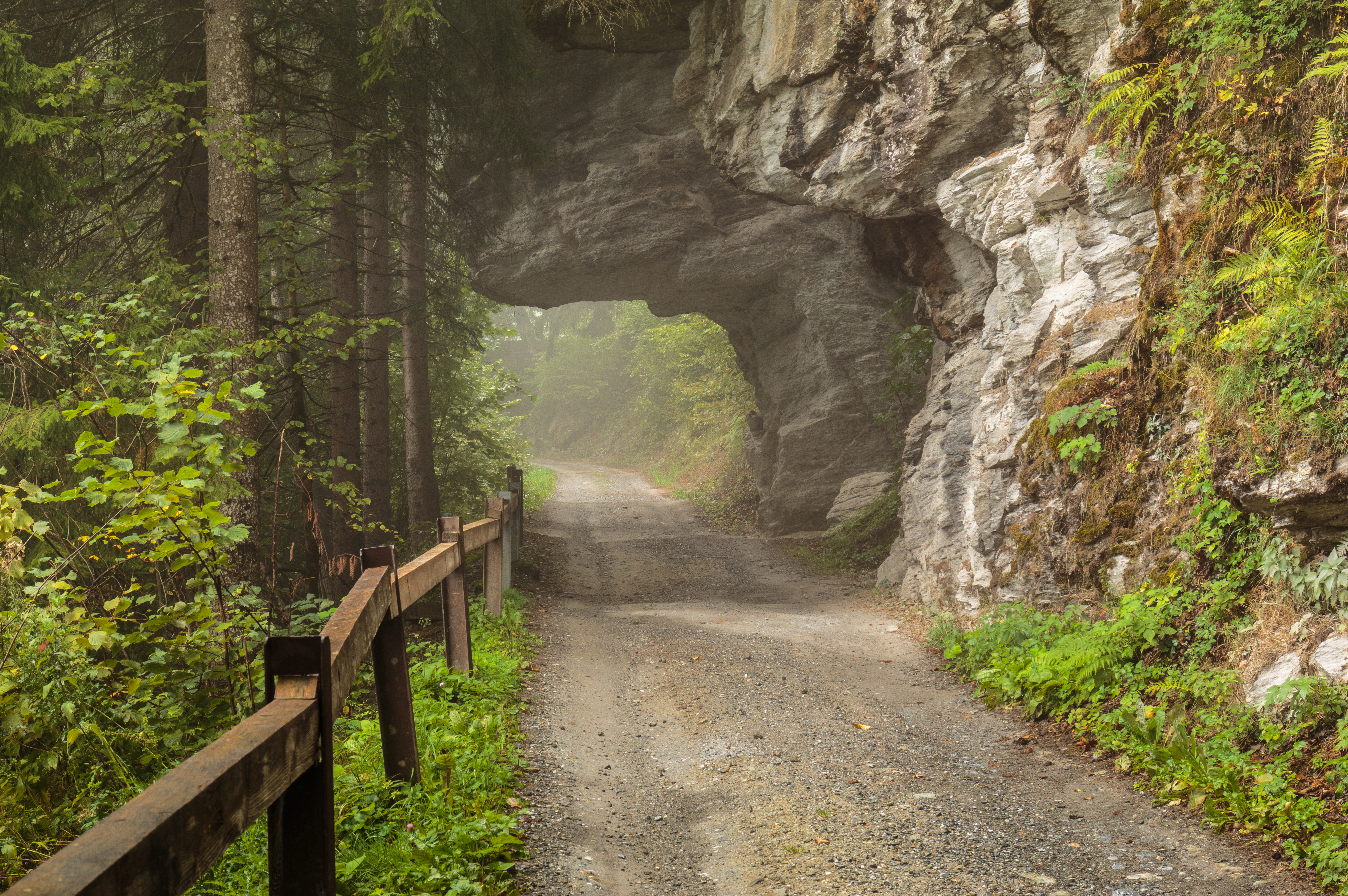 Panorama road between Waltensburg / Vuorz and Breil/Brigels, Canton of Grisons, Switzerland. Carved out passage. Sunda: Torowongan di jalan antara Waltensburg/Vuorz jeung Breil/Brigels.